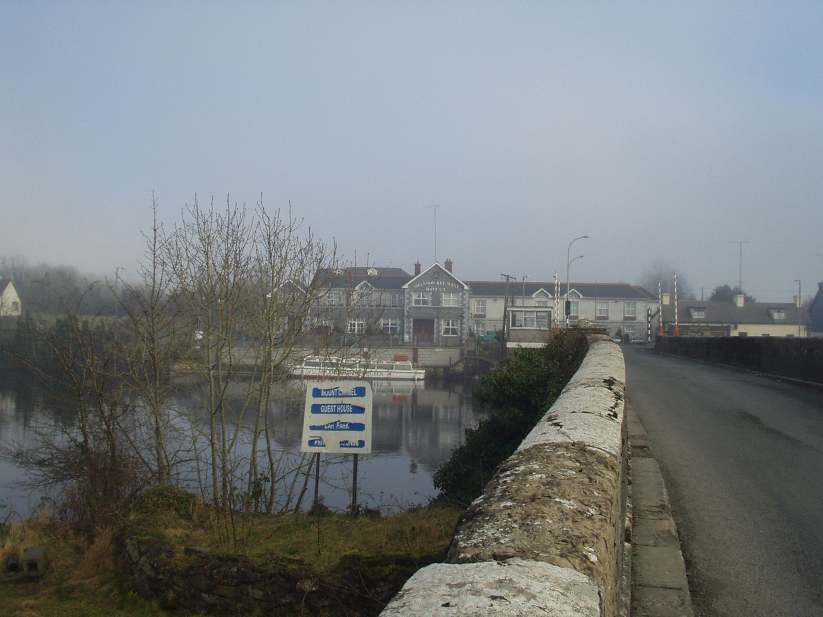 Roosky, County Roscommon (Sarah777 16:51, 24 December 2006 (UTC))